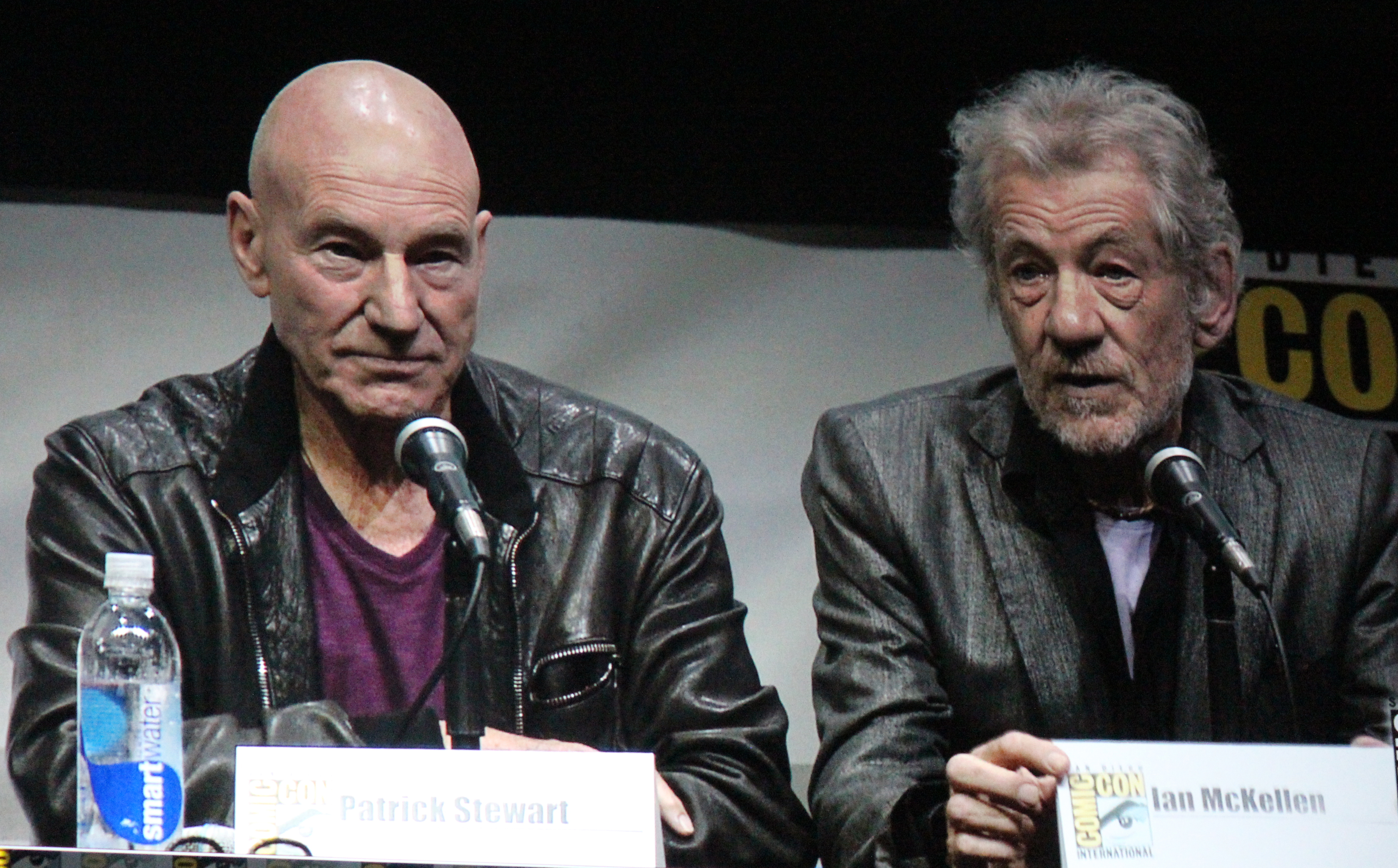 Comic-Con 2013